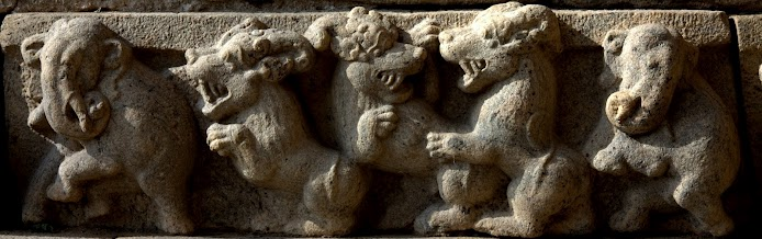 Narthamalai, Pudukkottai, Tamilnadu, Vijayalaya Choleeswaram